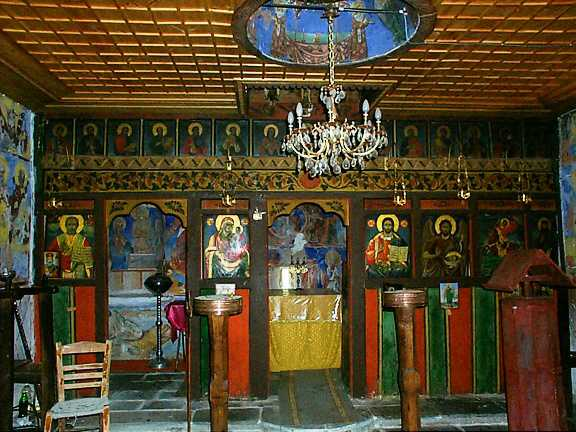 Interior of the restored Church of Agios Nikolaos, image from the Museum of the Macedonian Struggle, Hromio, West Macedonia, Greece